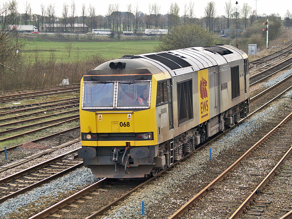 English Welsh and Scottish Railway Limited former British Railways Brush Type 5 Co-Co class 60 diesel-electric locomotive number 60068 Charles Darwin of Toton TMD passes by Castleton East Junction on the Down Main line running the 10:31 (SX) Arpley Sidings to Scunthorpe Trent Terminal Complex (0E03). Friday 4th April 2008